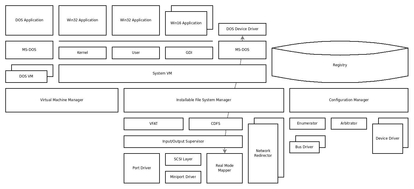 Diagram of Windows 95's architecture.